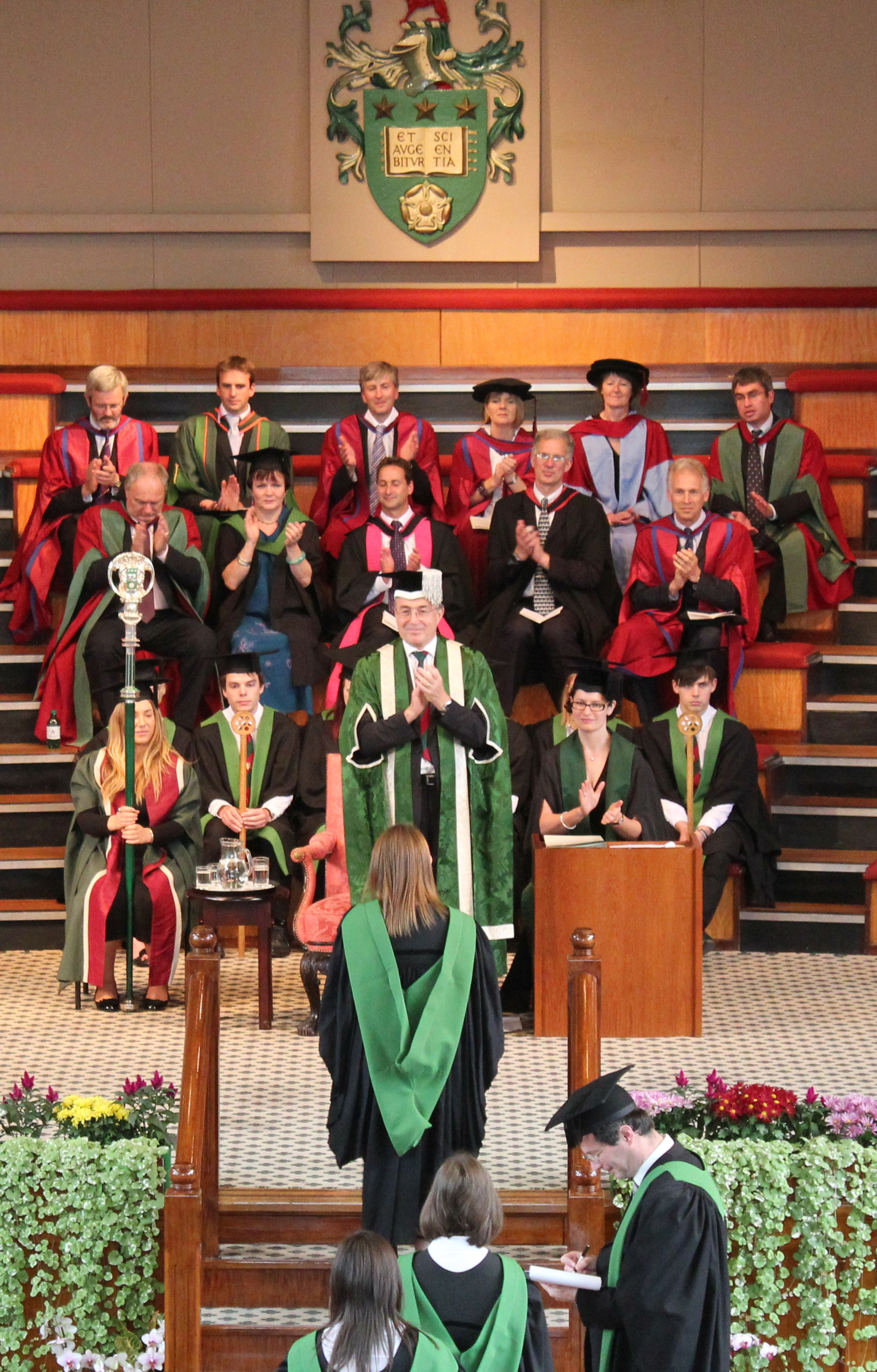 Leeds University graduation in the Great Hall 22 July 2012